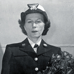 Depicted person: Edith Munro